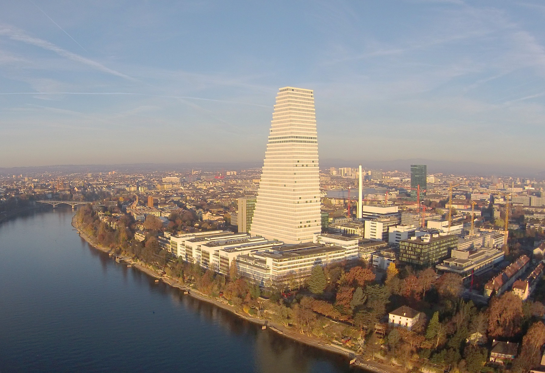 Basel: Area of Roche with Roche Tower